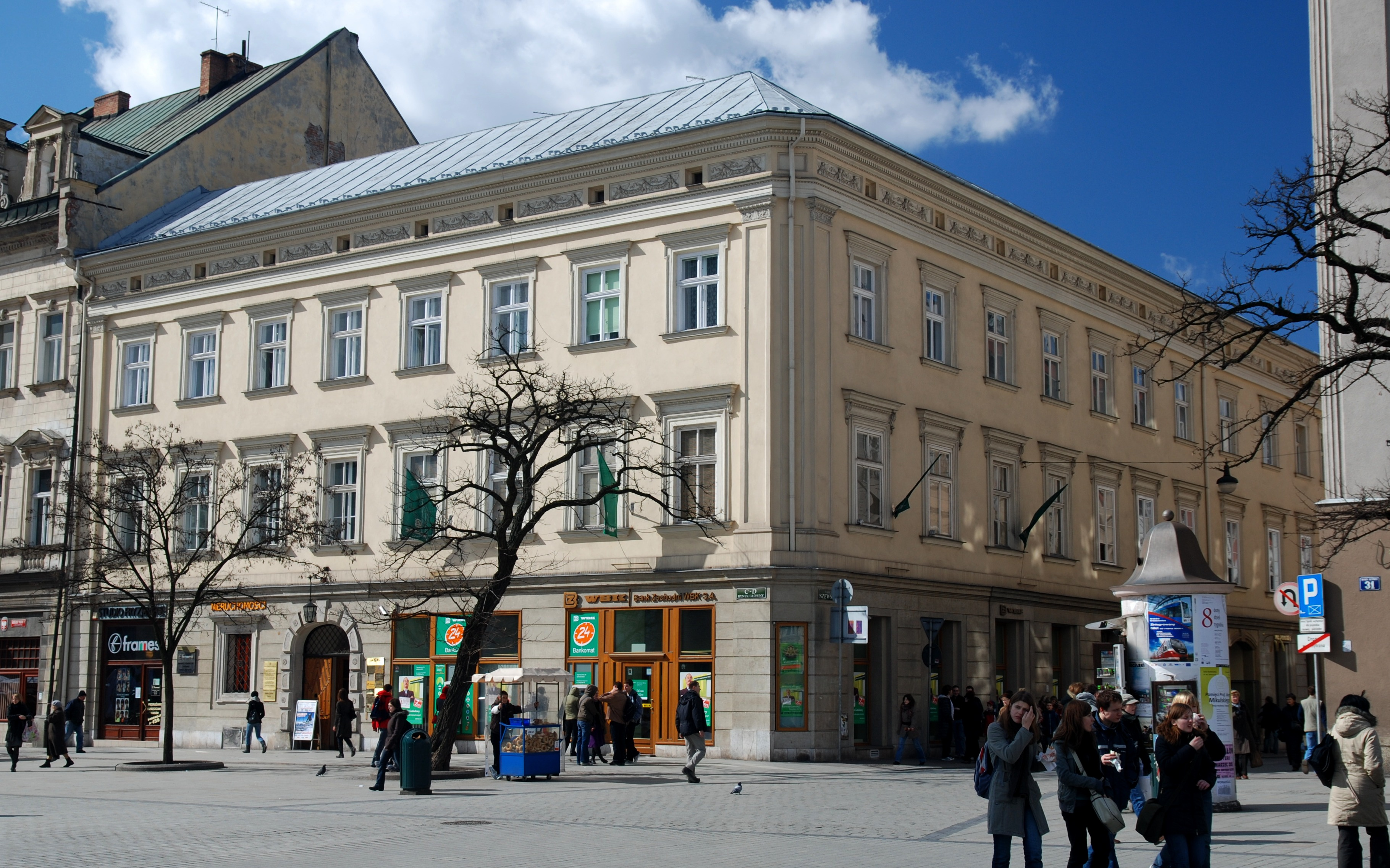 Pałac Małachowskich. 30 Old Town Market Square in Kraków